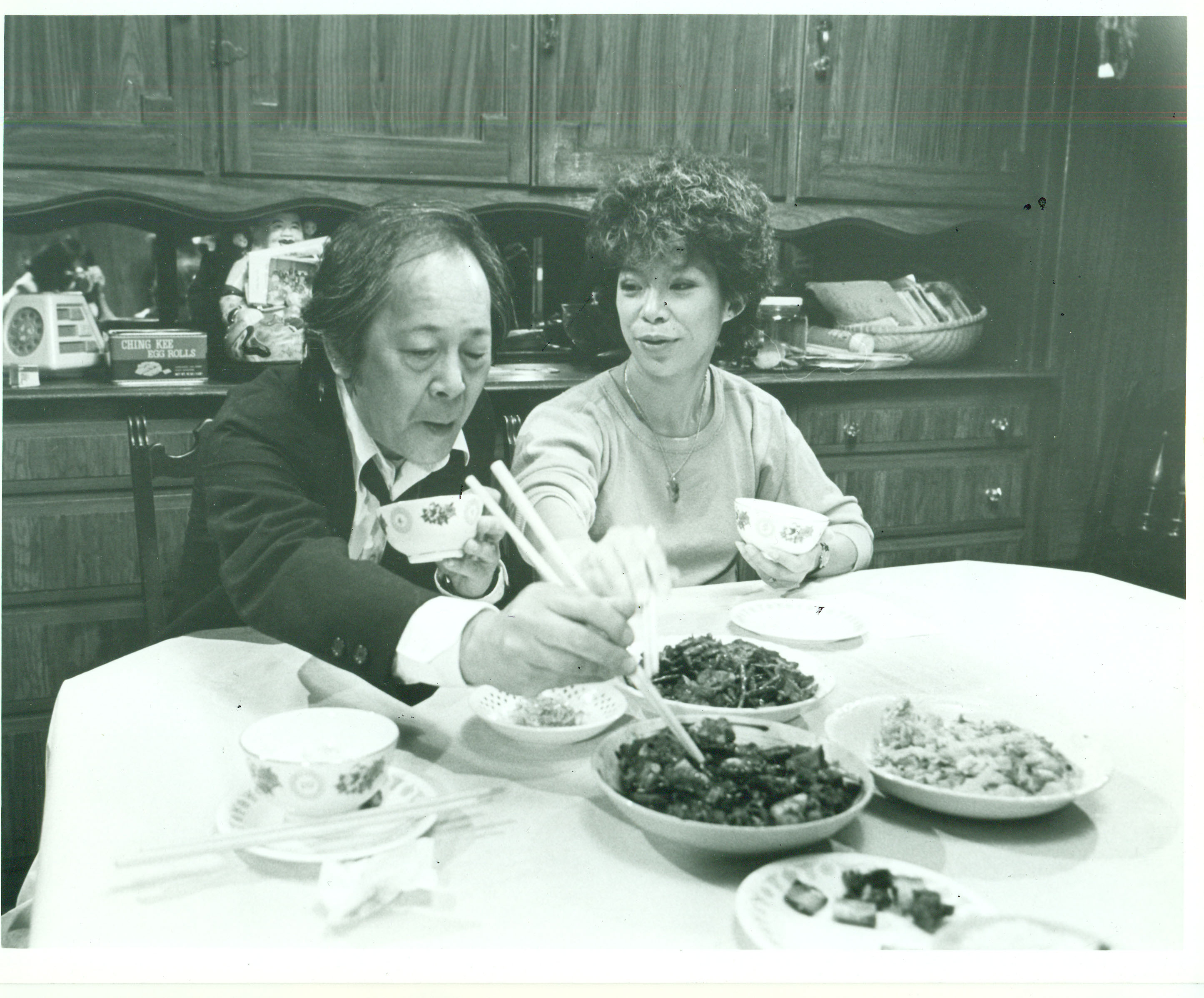 Actor Victor Wong and Laureen Chew in a scene from the 1985 film, "Dim Sum, a Little Bit of Heart" directed by Wayne Wang. Nancy Wong photo 1983, San Francisco, California